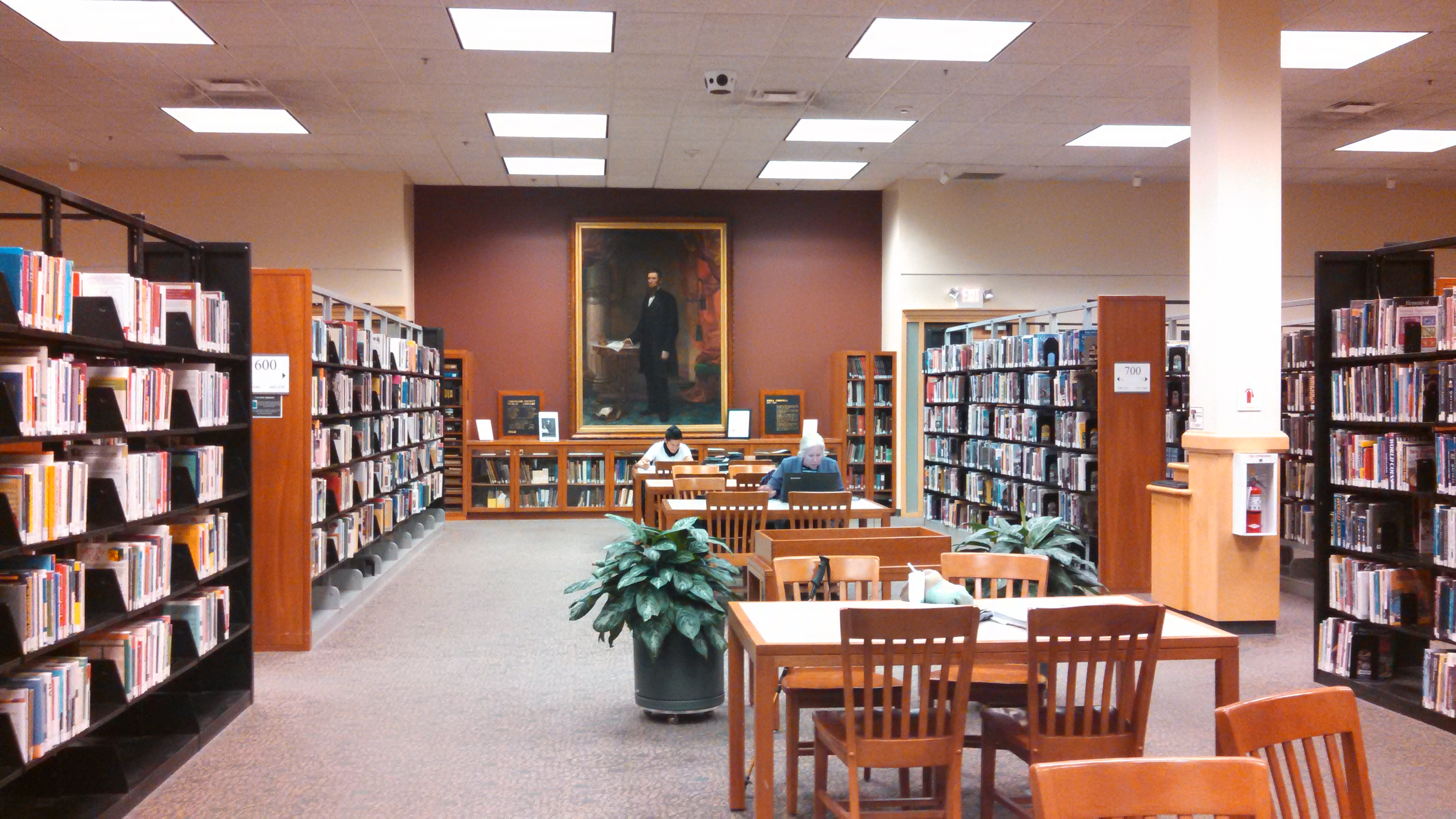 Tompkins County Public Library reading area